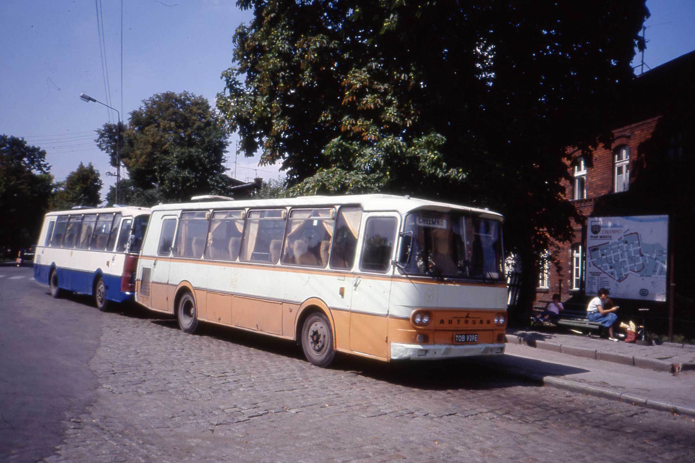 Two Autosan H9-21 buses in Chełmno, Poland. The bus in the front is registered in Toruń - PKS Toruń operator.